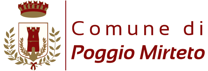 New brand in use from year 2015